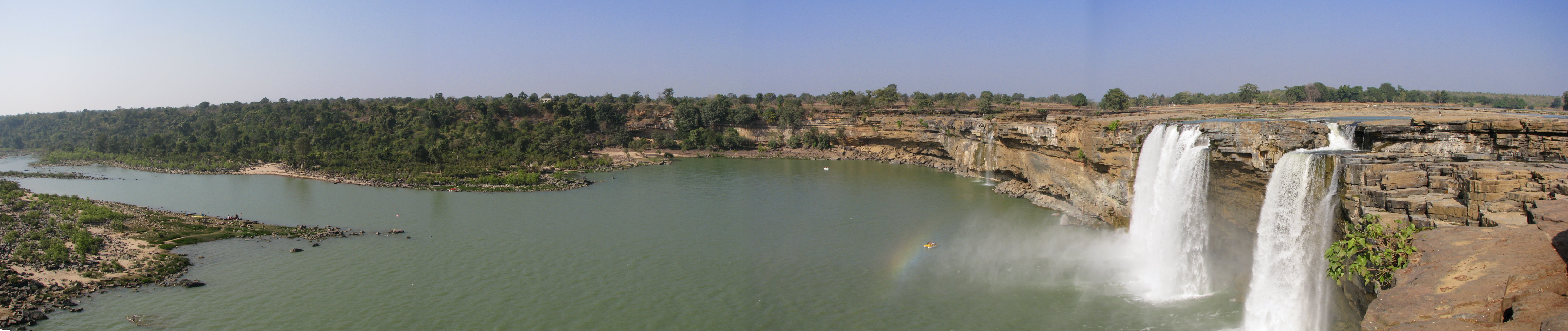 This is Panoramic View of Chitrakot Falls, Jagdalpur, Chattisgarh, India. Waterfall Discharge: Max - 184,500 Cusec Min - 52,600 Cusec